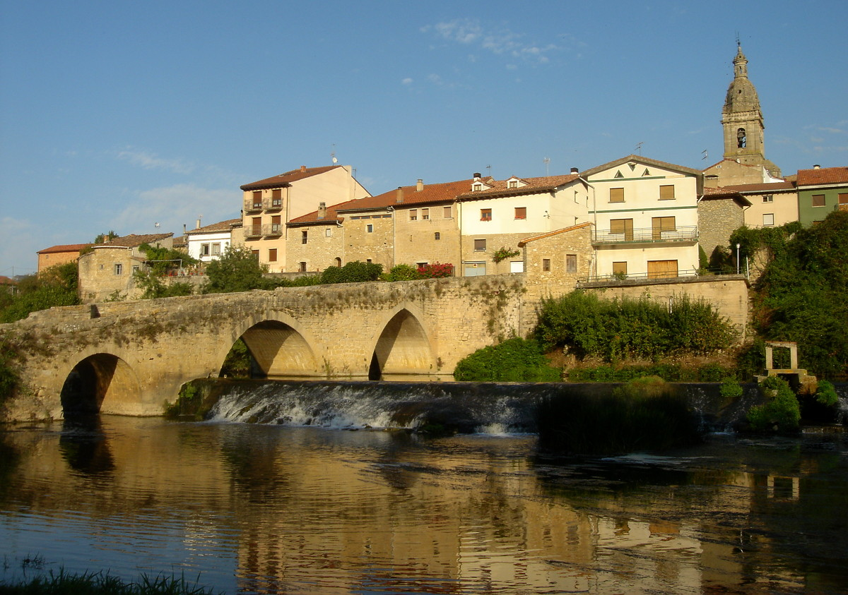 Argantzun or Lapuebla de Arganzón (Treviño, Spain)